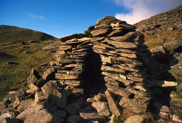 Stone shelter and Walna Scar Track A rough stone shelter which has been here fifty years to my Knowledge